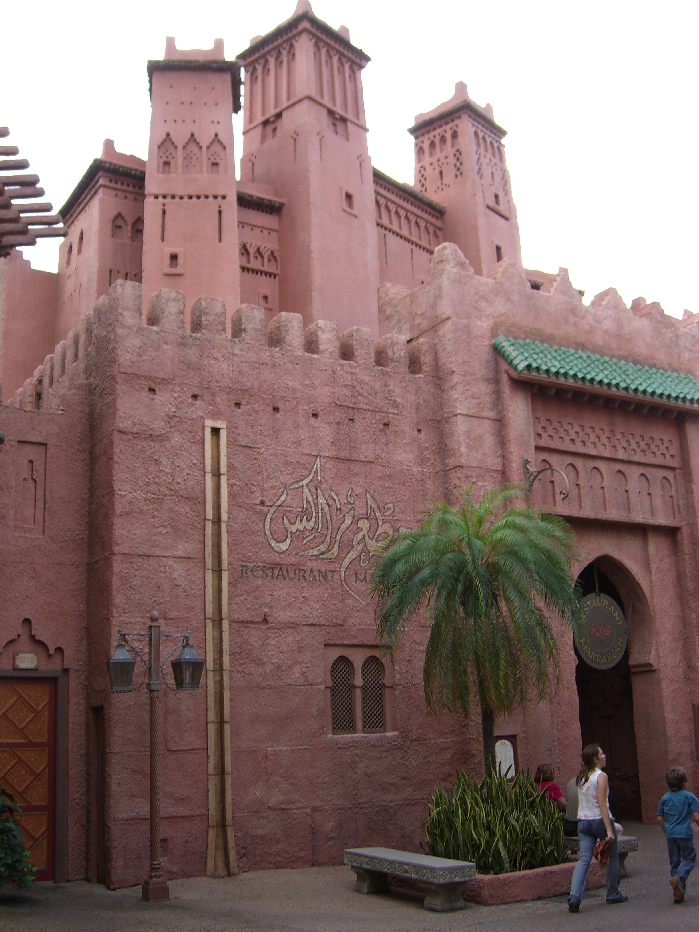 Restaurant Marrakesh at the Morocco pavillion at Epcot.